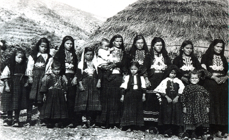 Sarakatsani women and girls, in Mitsikeli, Ioannina, August 1922